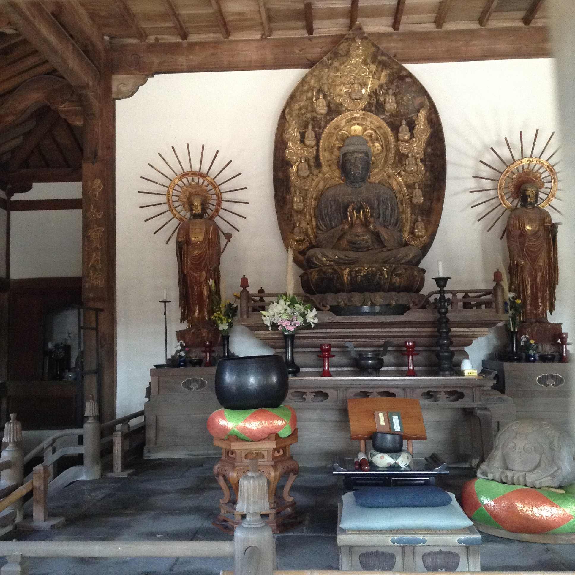 Birushana Buddha (Vairocana) in the Kaidan-in (Dazaifu, Japan) from the late Heian-Period. Since 1904 an Important Cultural Property (Japan).